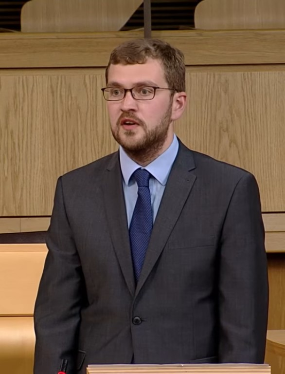 Oliver Gordon Watson Mundell, Member of the Scottish Parliament for Dumfriesshire